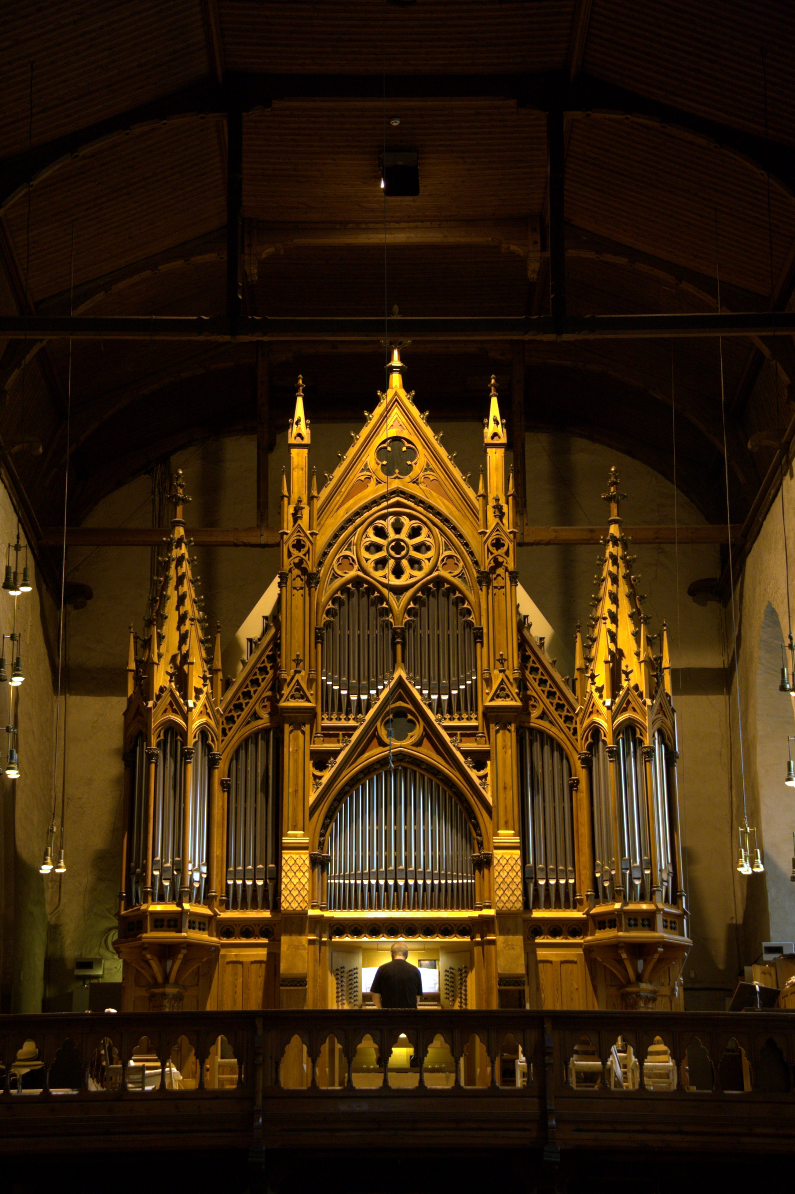 The organ at Bergen Cathedral (Bergen Domkirke) in Bergen, Norway. From Rieger Orgelbau, description